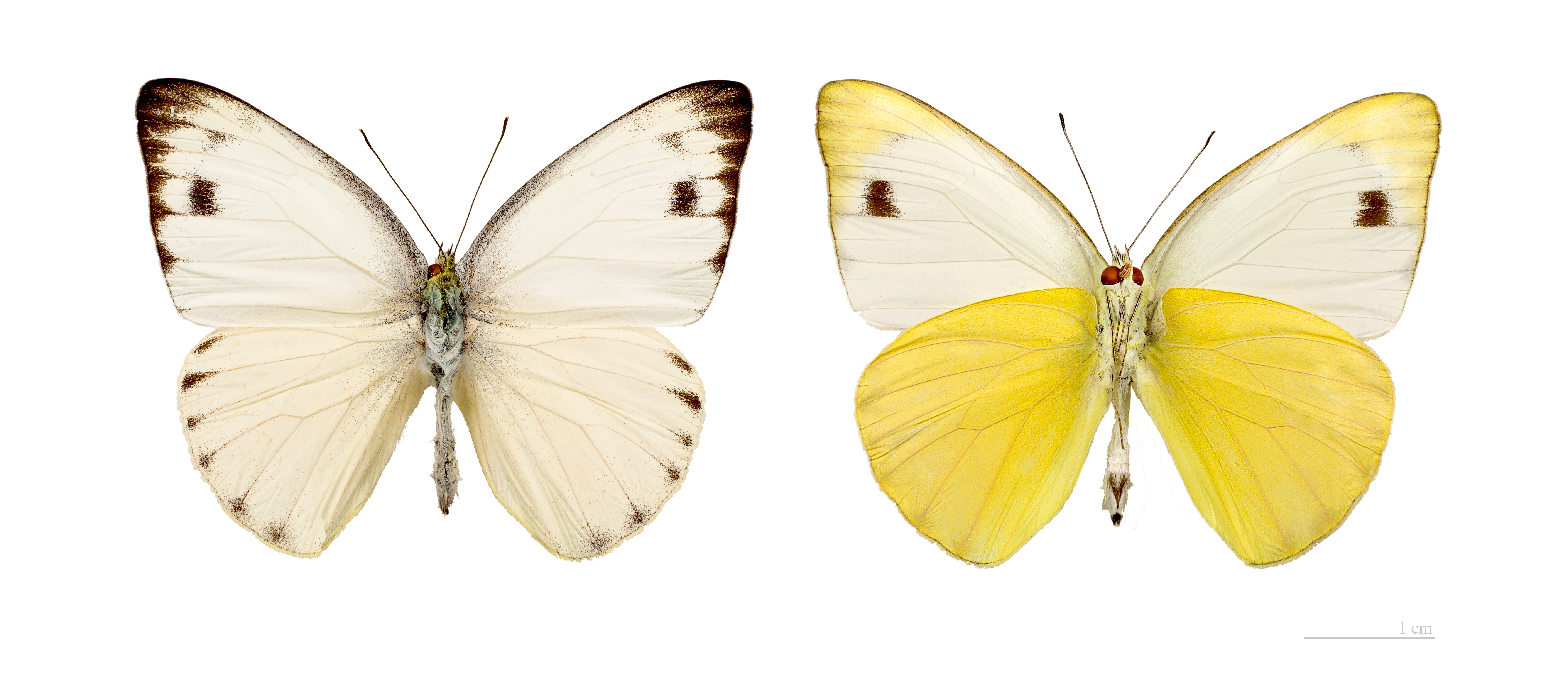 ♂ - Two views of same specimen Locality: Palawan, Philippines.